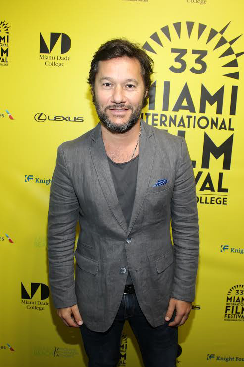 Singer/Songwritter Diego Torres at the Miami Film Festival Photo: David Heischrek